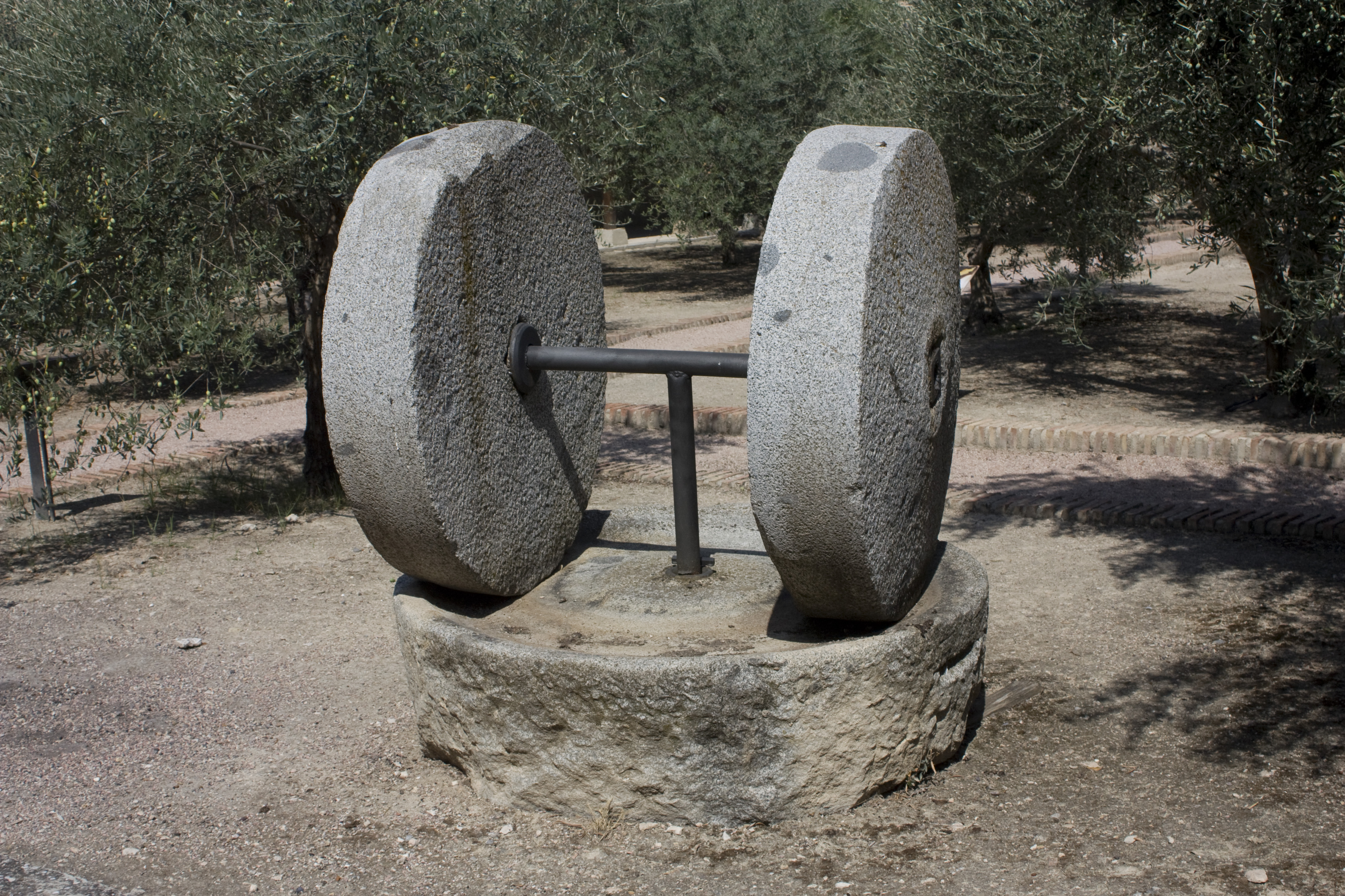 Traditional oil mill with vertical millstones. Hacienda La Laguna, Baeza, Jaén, Spain.